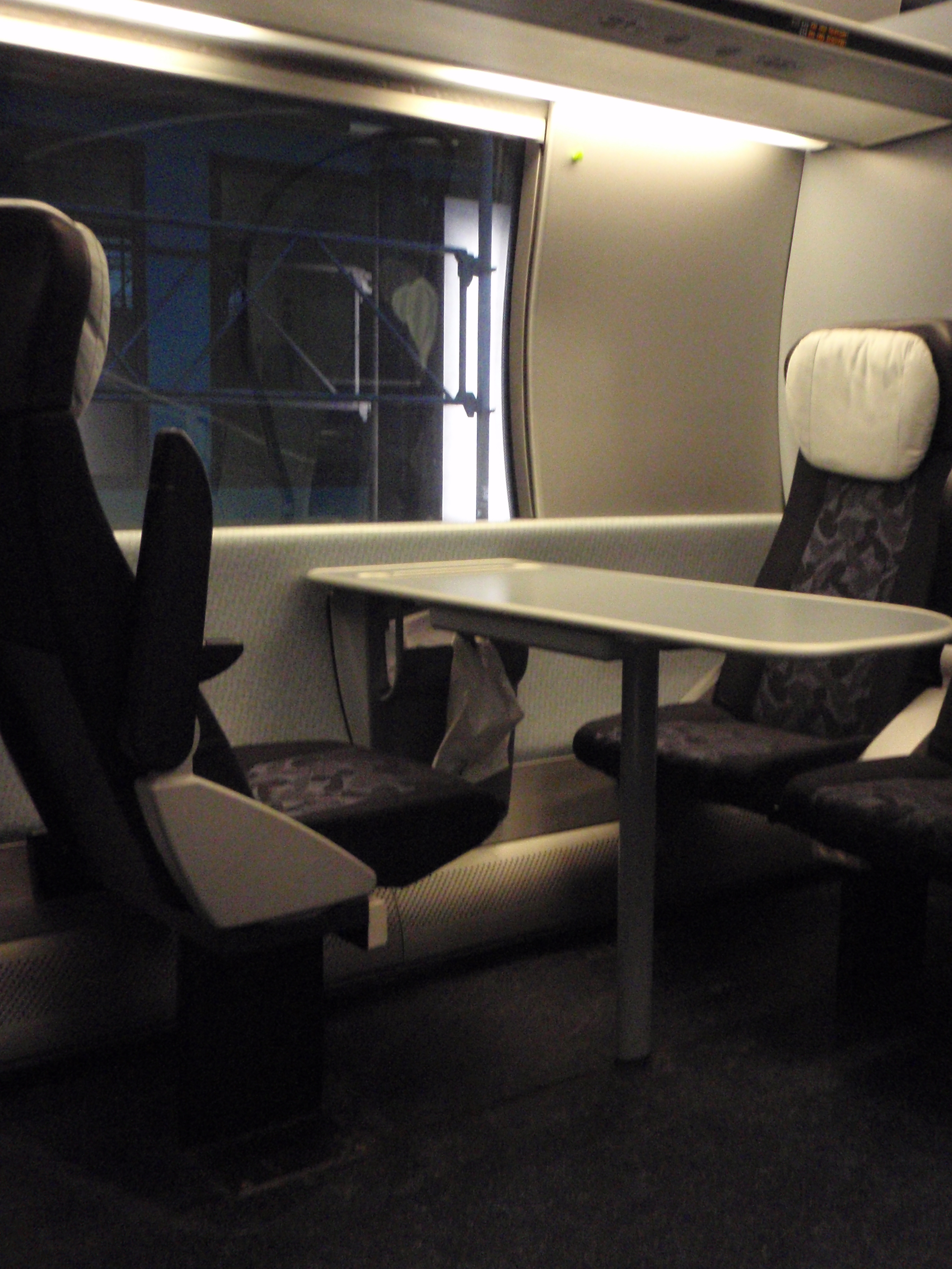 IC4 5632 low floor coach - Room for one wheel chair